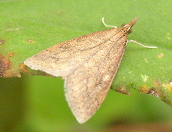 Udea rubigalis (Celery Leaftier)